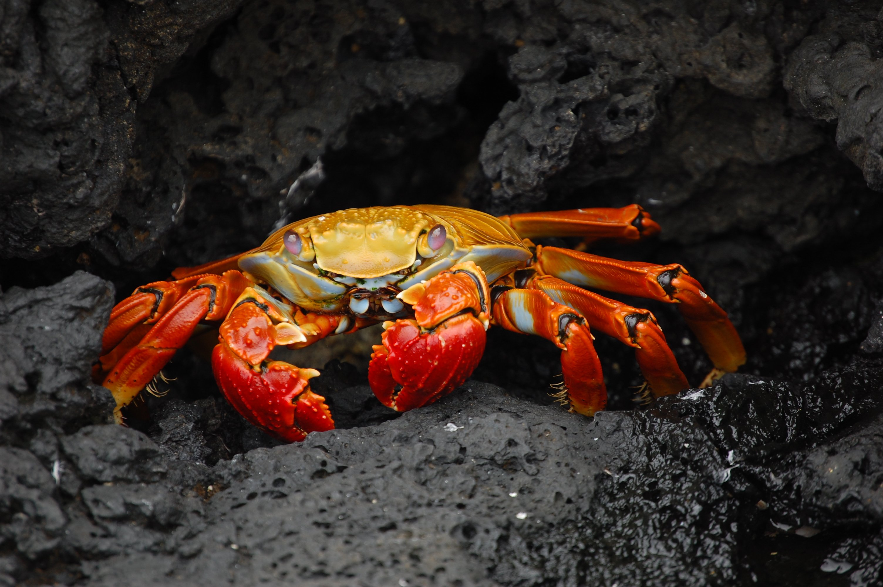 Grapsus grapsus from the Galápagos Islands